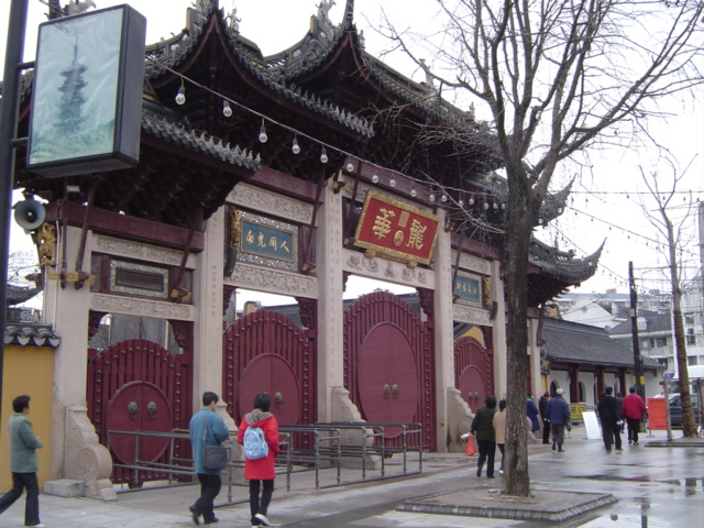 The front gate of Longhua Temple, Shanghai, China. This gate was reconstructed in the 2000s and does not correlate with the position of the original temple gate. Photo taken by Sumple on 11/01/2004. As a courtesy, and entirely voluntarily, please notify me if you change this image or its description.